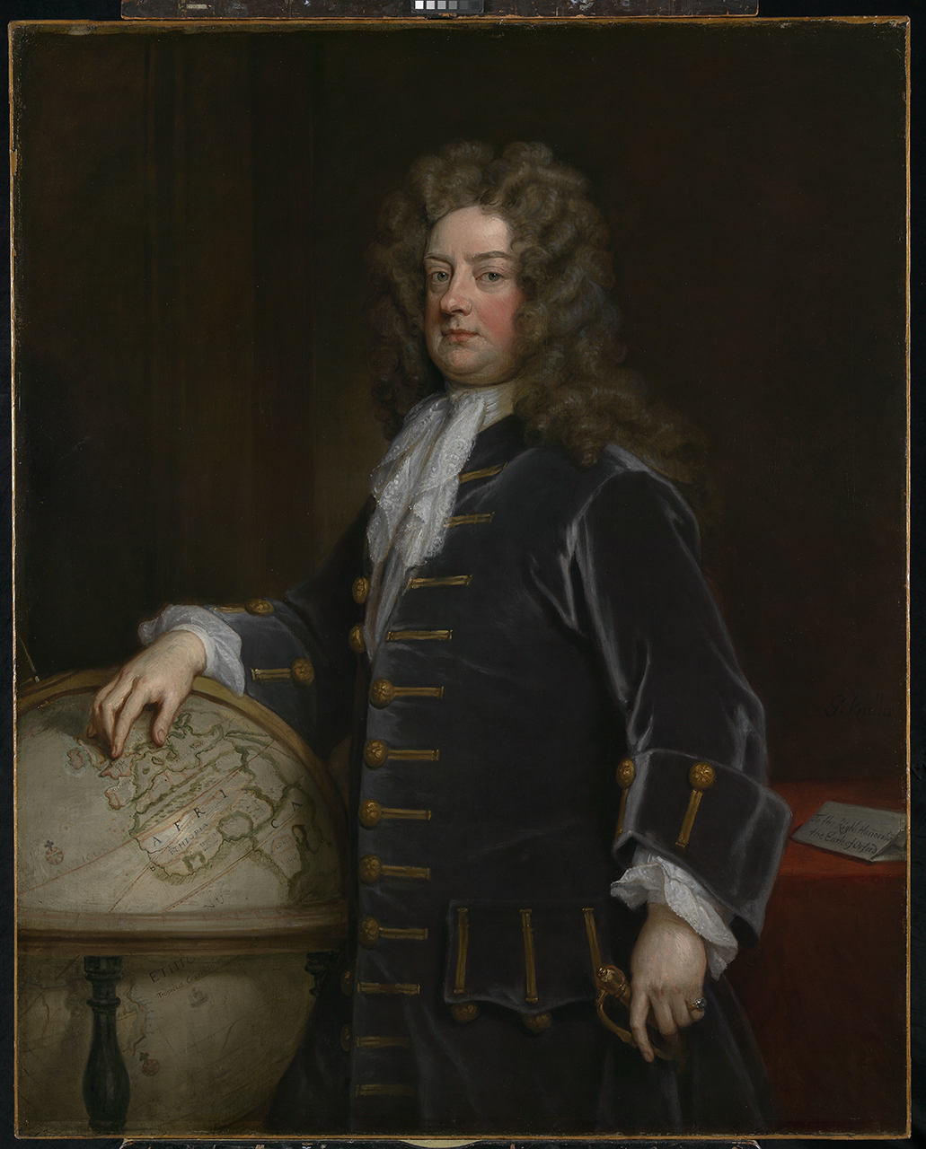 Admiral Edward Russell, 1652-1727, 1st Earl of Orford In 1692 Russell commanded the Anglo-Dutch fleet at the five-day Battle of Barfleur and the destruction of the French fleet at La Hogue following the action, thus halting Louis IV’s invasion plans (see scenes of the battle: BHC0331, BHC0337 and BHC0338). Russell is shown wearing a grey velvet coat with gold embroidered button holes, and a brown full-bottomed wig. His right hand rests on a globe on the left, his finger indicating the north French coast. To the right on a table is a letter inscribed ‘To the Right Honourable the Earle of Orford’. The portrait is signed ‘G Kneller’ and was painted about 1710. Admiral Edward Russell, 1652-1727, 1st Earl of Orford